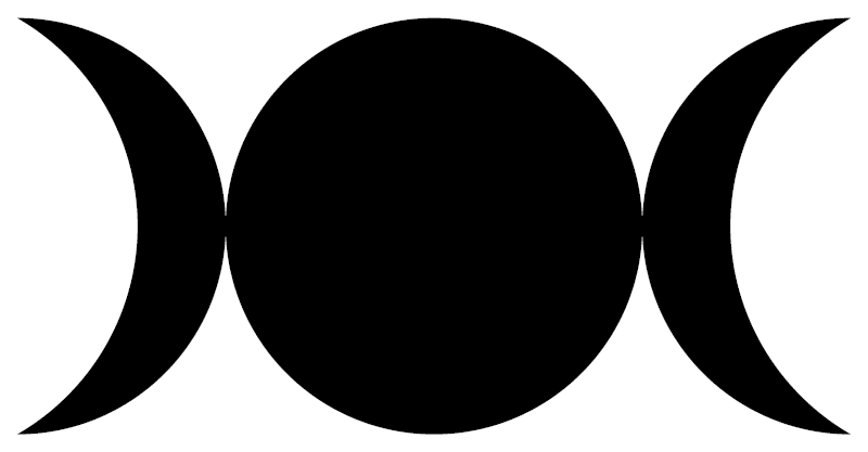 Triple Goddess Symbol, composed of waxing crescent, full moon, and waning crescent (filled version). See Image:Triple-Goddess-Waxing-Full-Waning-Symbol.png for further explanation, or Image:Triple-Goddess-Waxing-Full-Waning-Symbol-multicolored.png for a version using symbolic colors.